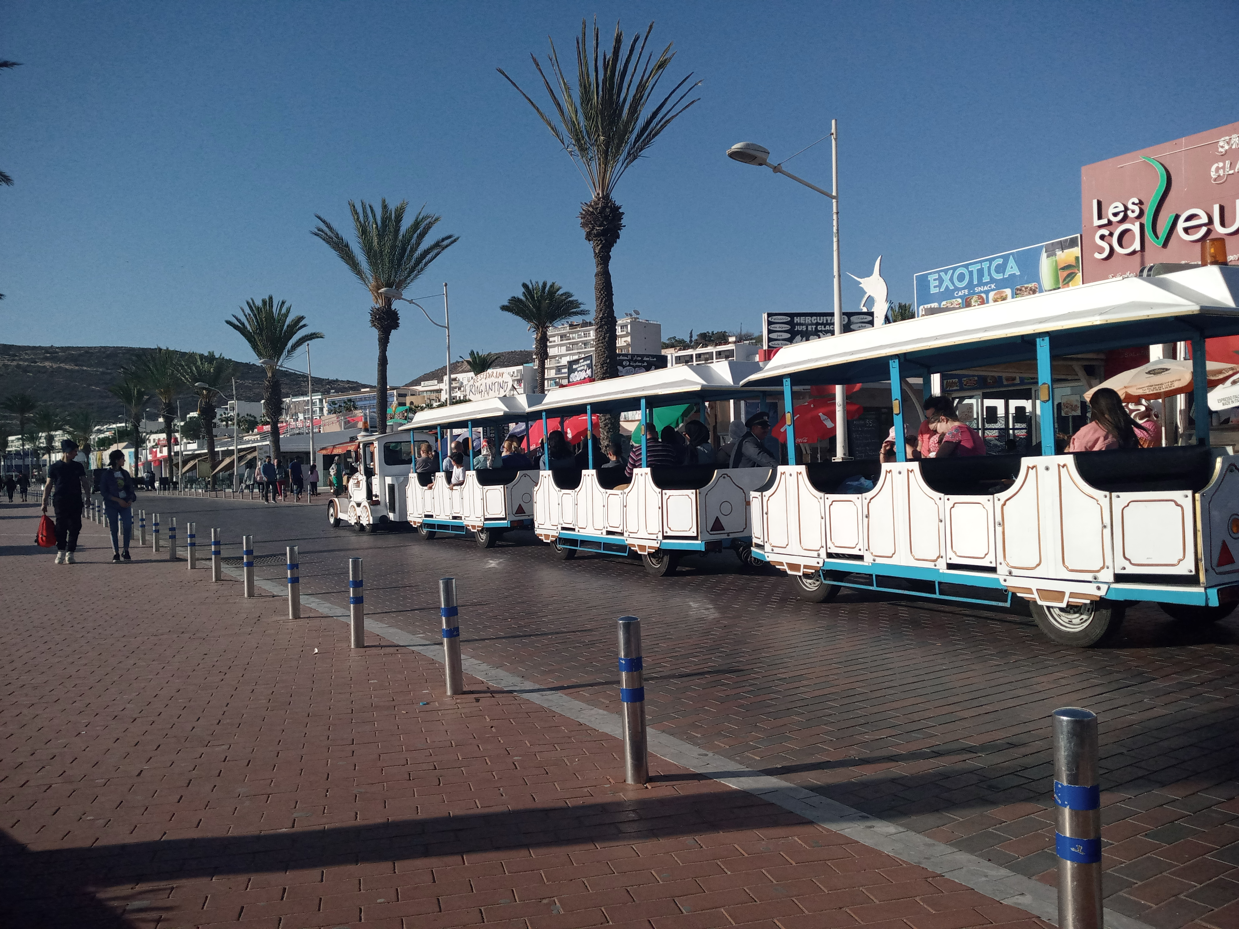 Petit train Agadir This is an image with the theme "Africa on the Move or Transport" from: Morocco